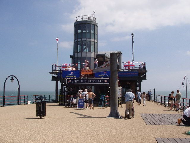 Lifeboat Station at the end of Southend Pier. Southend Pier is a mile and quarter long making it the longest pier in Britain. For more information, please see Wikipedia articles Southend Pier or Southend-on-Sea lifeboat station.